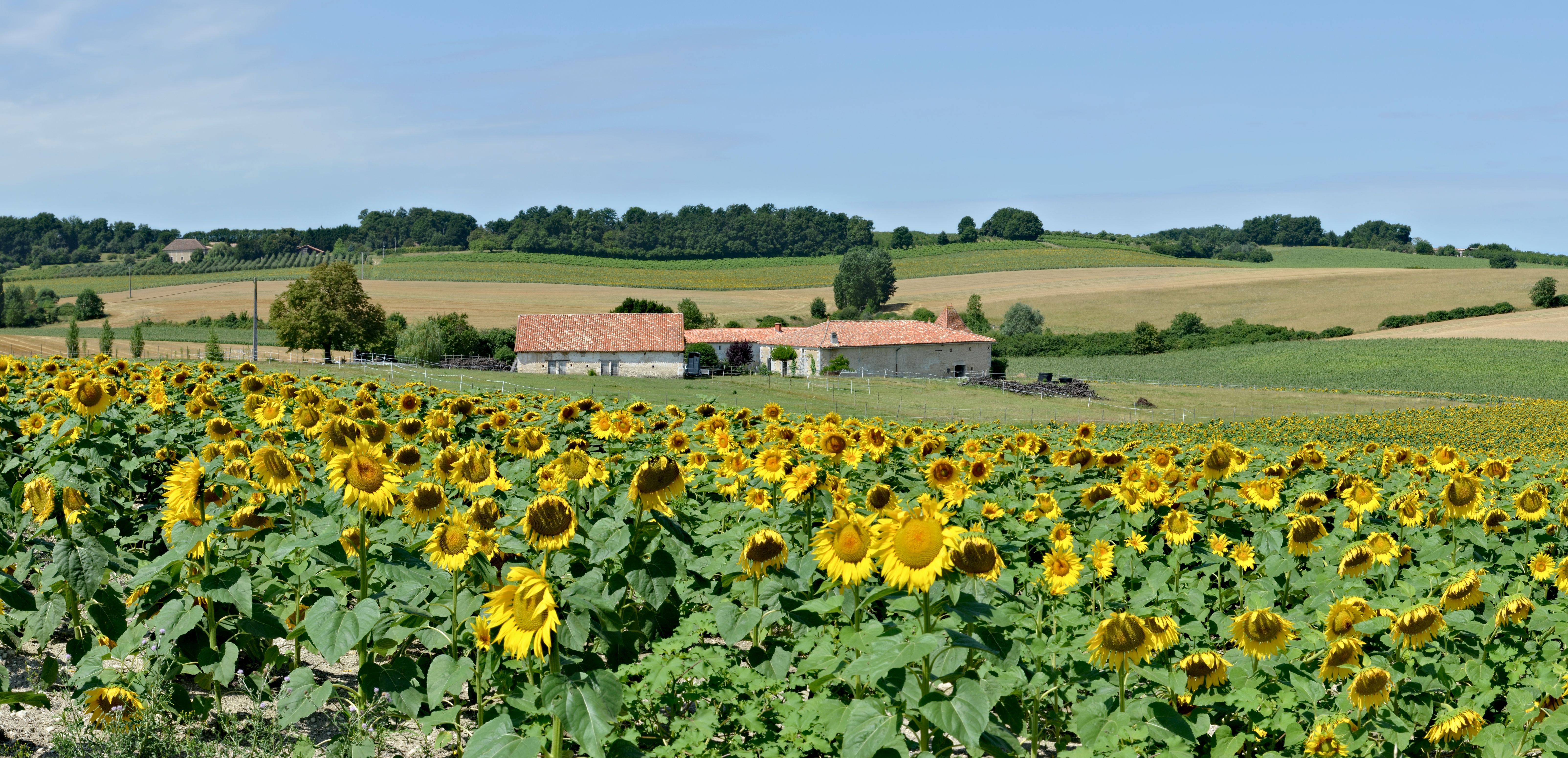 Fields and renewed hamlet of Le Menot, Bessac, Charente, France.